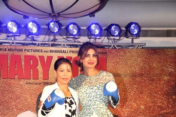 Audio release of Mary Kom